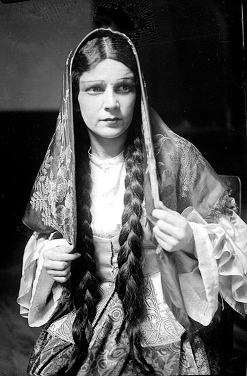 Fatma Qadri as Sona in "In 1905" play. Baku Workers Theater.